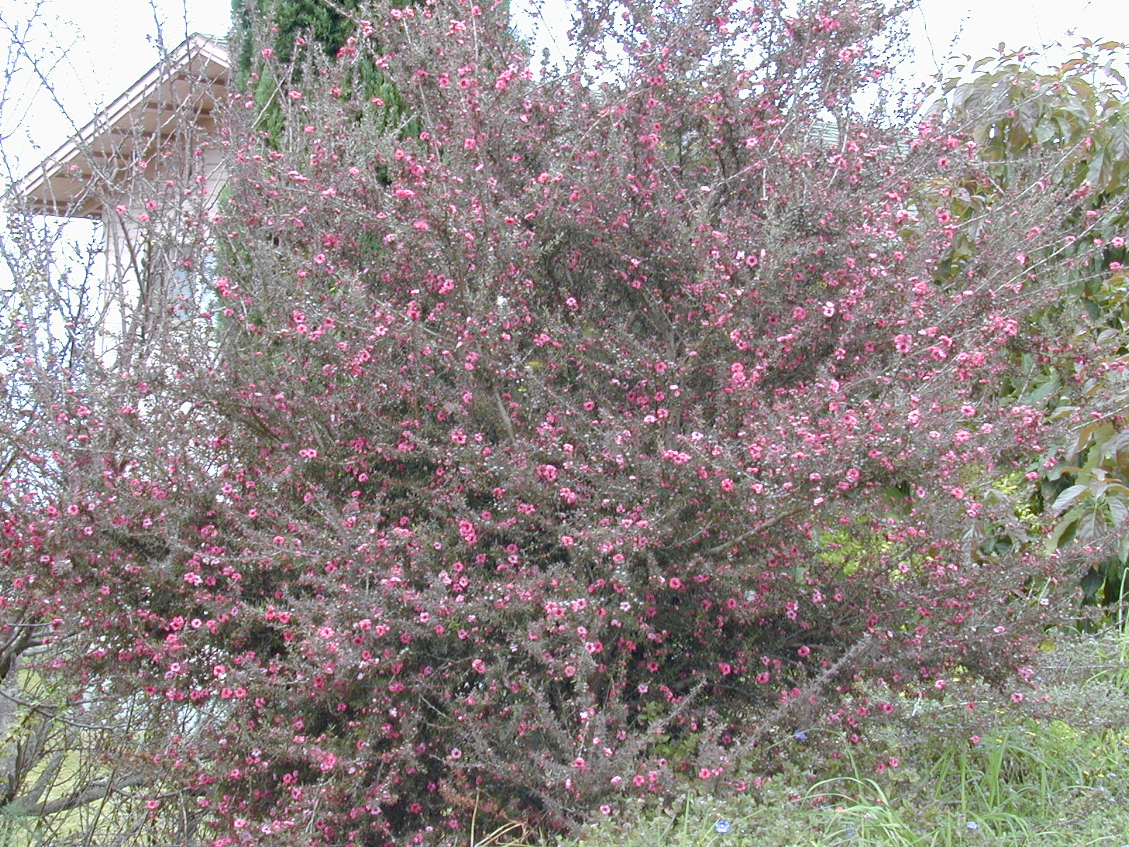 Leptospermum scoparium (habit). Location: Maui, Kula